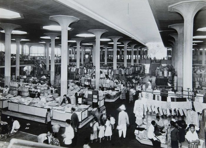 The Pasar Johar